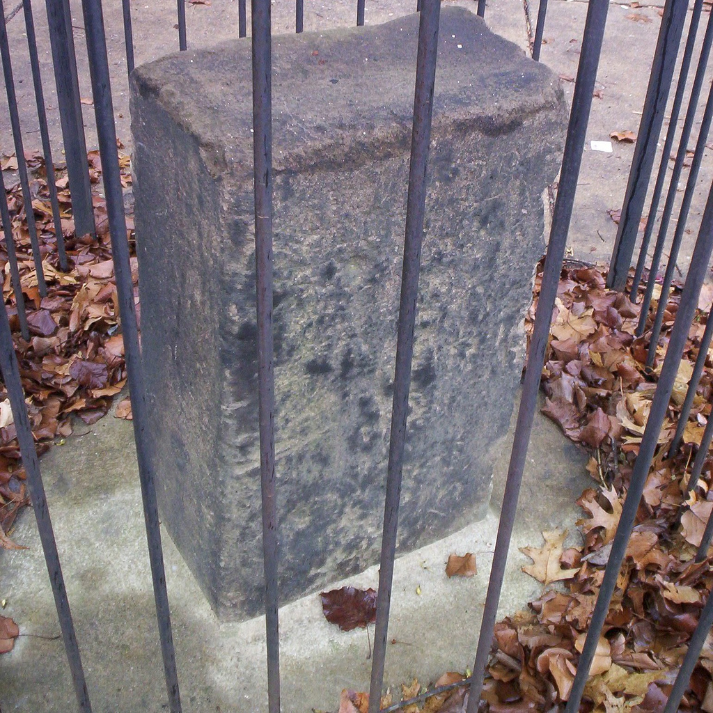 DC Boundary Stone Southwest Mile 2, that is the boundary marker 2 miles NW of the southernmost marker of the original District of Columbia, now in northern Virginia. The stone was placed in 1791-1792 by Andrew Ellicott and Benjamin Banneker. See for a map of these stones.